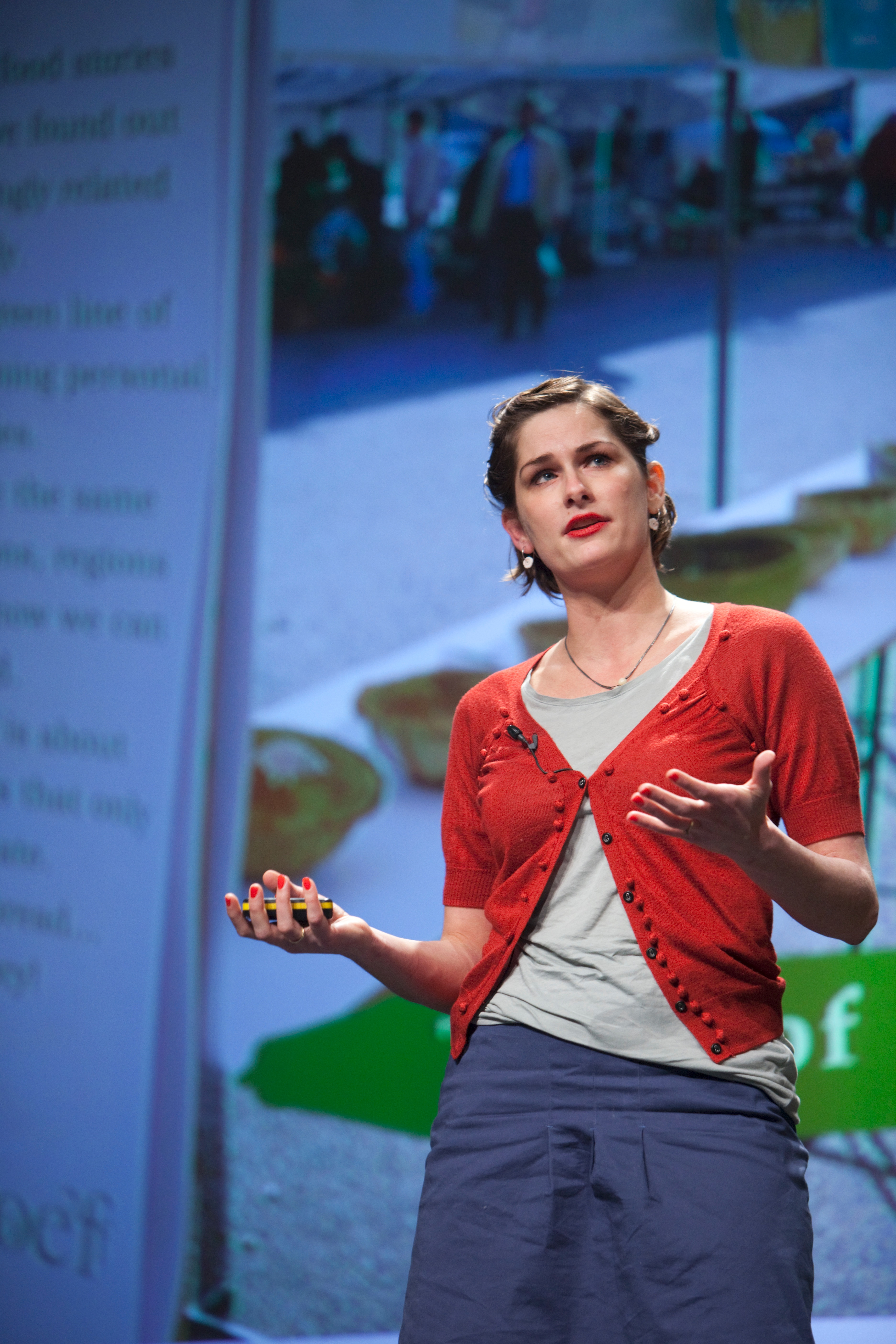 photo by Kris Krüg for PopTech